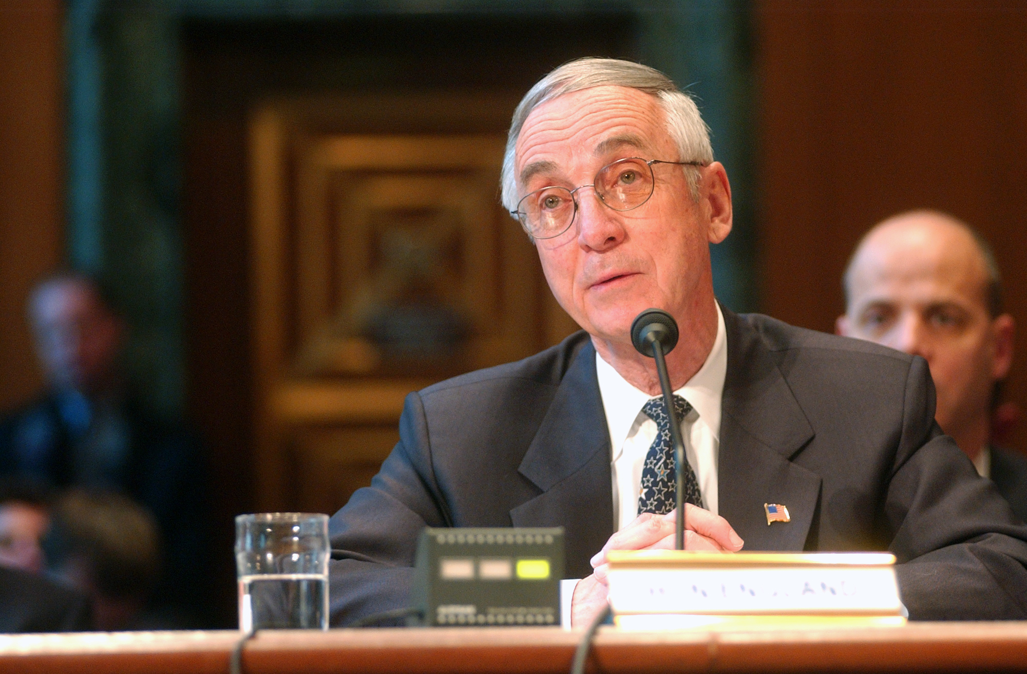 The Honorable Gordon R. England, Secretary of the Navy (SECNAV), gives testimony to members of the Senate Appropriations Committee concerning the Fiscal Year 2005 National Defense Authorization Budget Request for the Department of the Navy. U.S. Navy photo by Chief Journalist Craig P. Strawser.